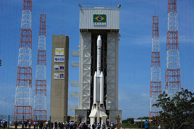 VLS-1 Plataform Mockup